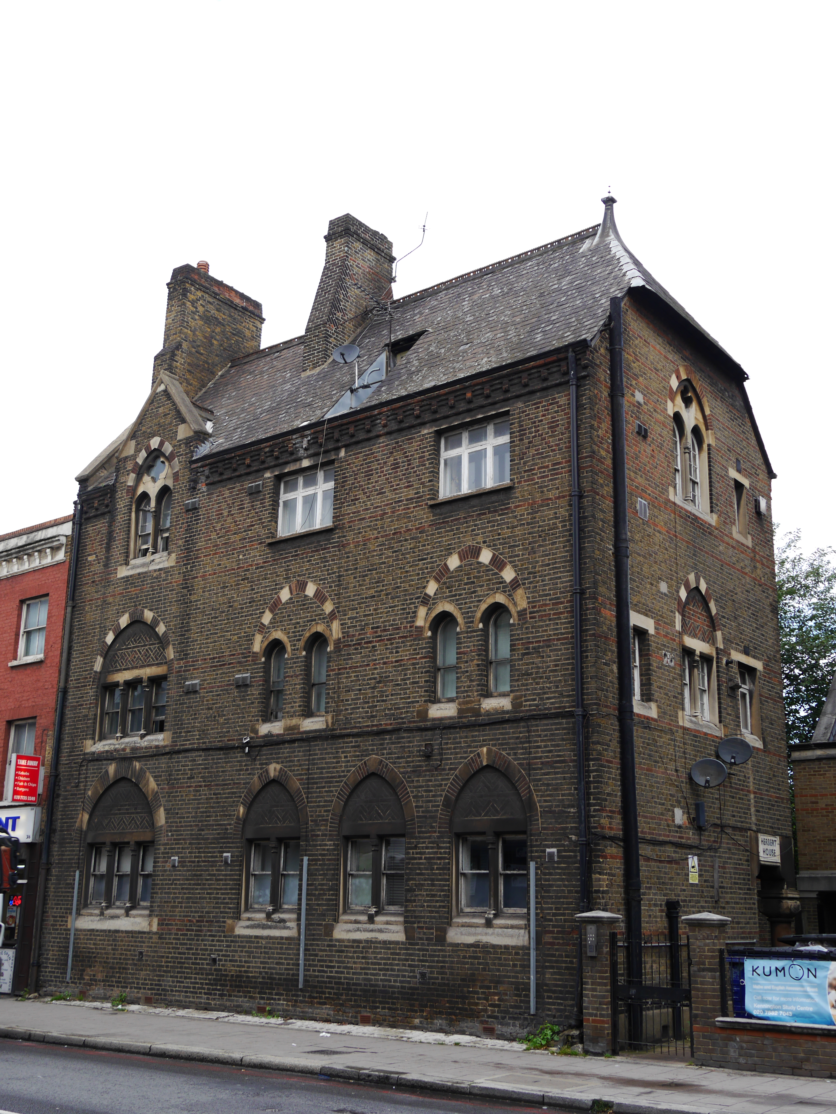 Herbert House Wikidata has entry Q17552970 with data related to this building.